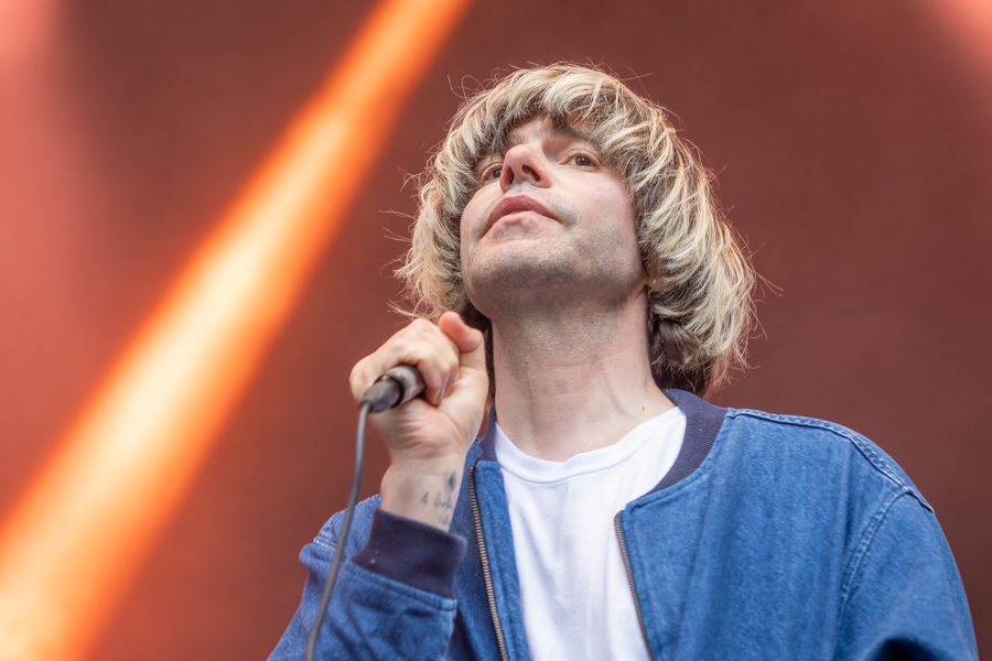 Tim Burgess in a concert with The Charlatans at the Petrus stage in Sofienbergparken. The concert was part of Piknik i Parken and took place on 13. June 2019 in Oslo. Lineup:Martin Blunt (bass guitar)Tim Burgess (vocal)Mark Collins (guitar)Tony Rogers (keyboard)Unidentified (drums)